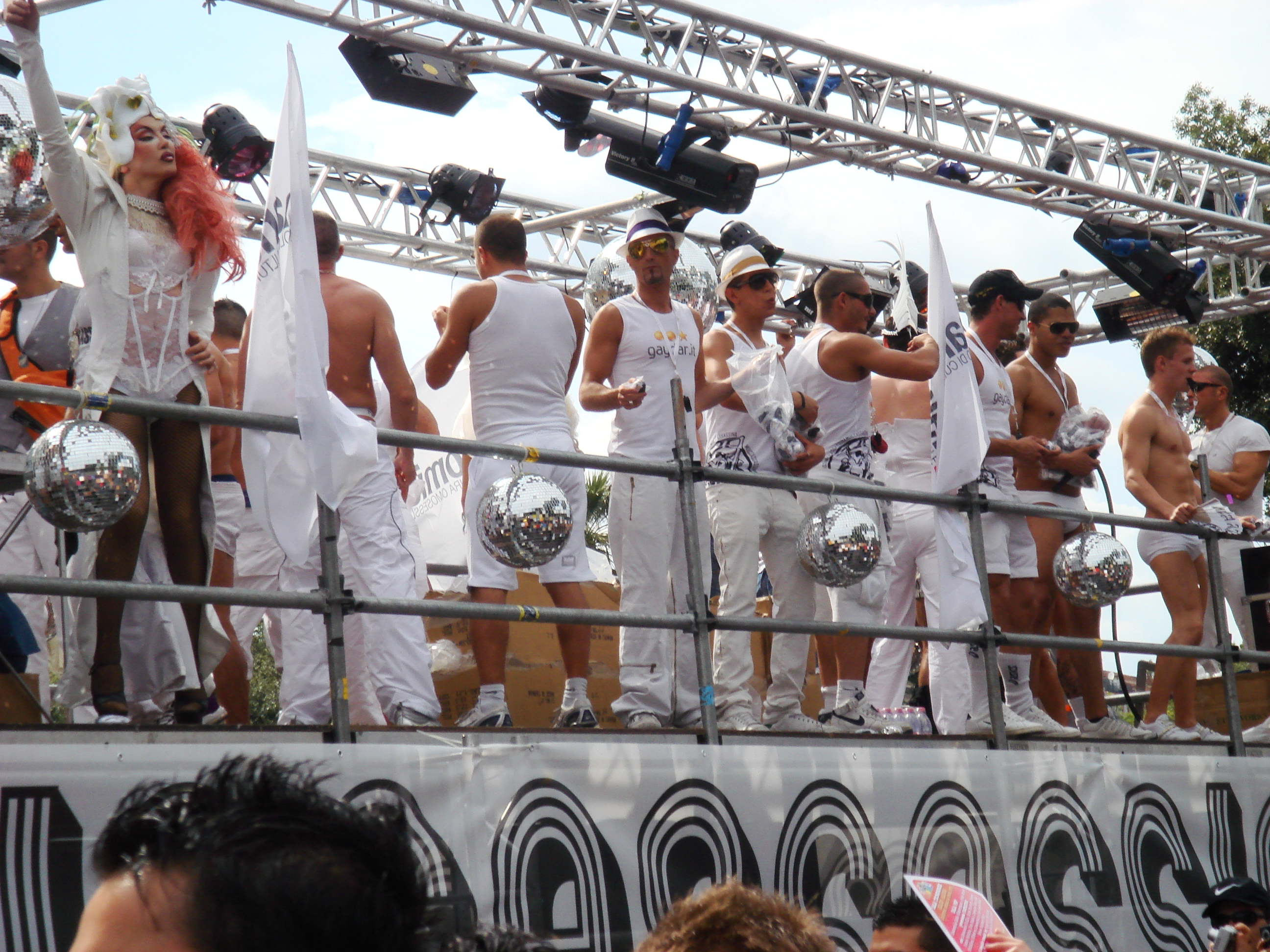 Marchers at the Roma Gay Pride in 2008. Picture by Stefano Bolognini, June 7 2008.